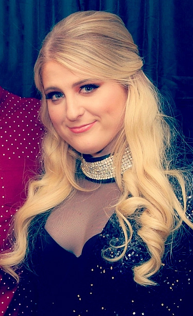 Meghan Trainor in the Shepherds Bush Empire.